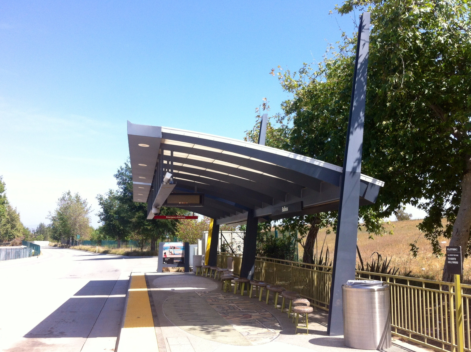 The platform of Balboa Station.